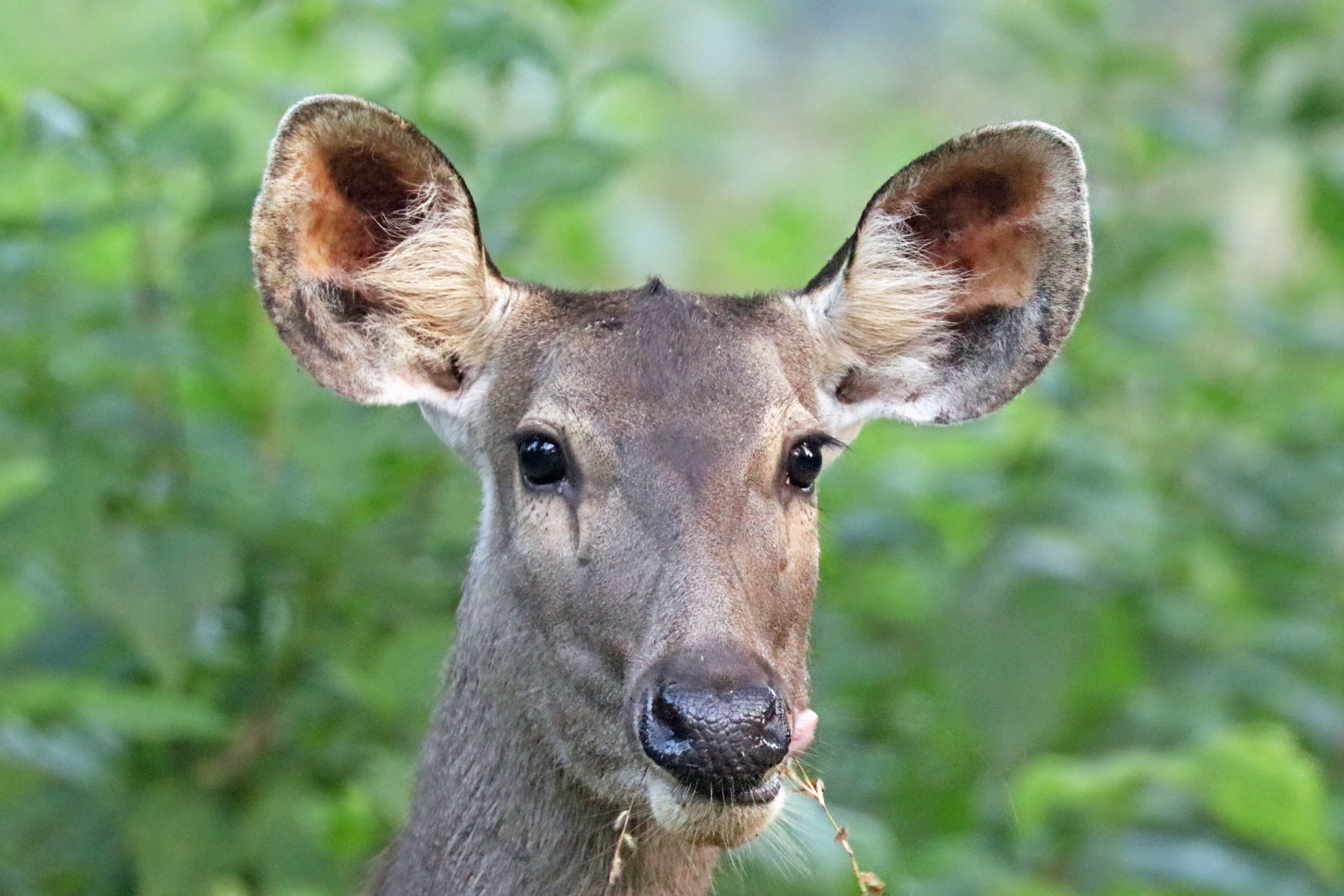 Sambar (Cervus unicolor unicolor) female, Kanha National Park, MP, India